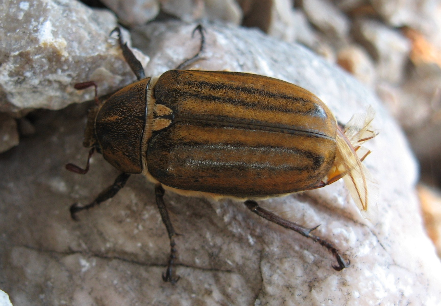 The beetle Anoxia matutinalis from the family Scarabaeidae, Krk/Croatia.